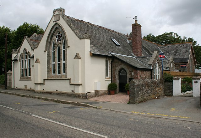 The Old School, Grampound Road